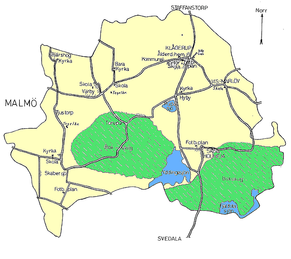 the old municipality Bara